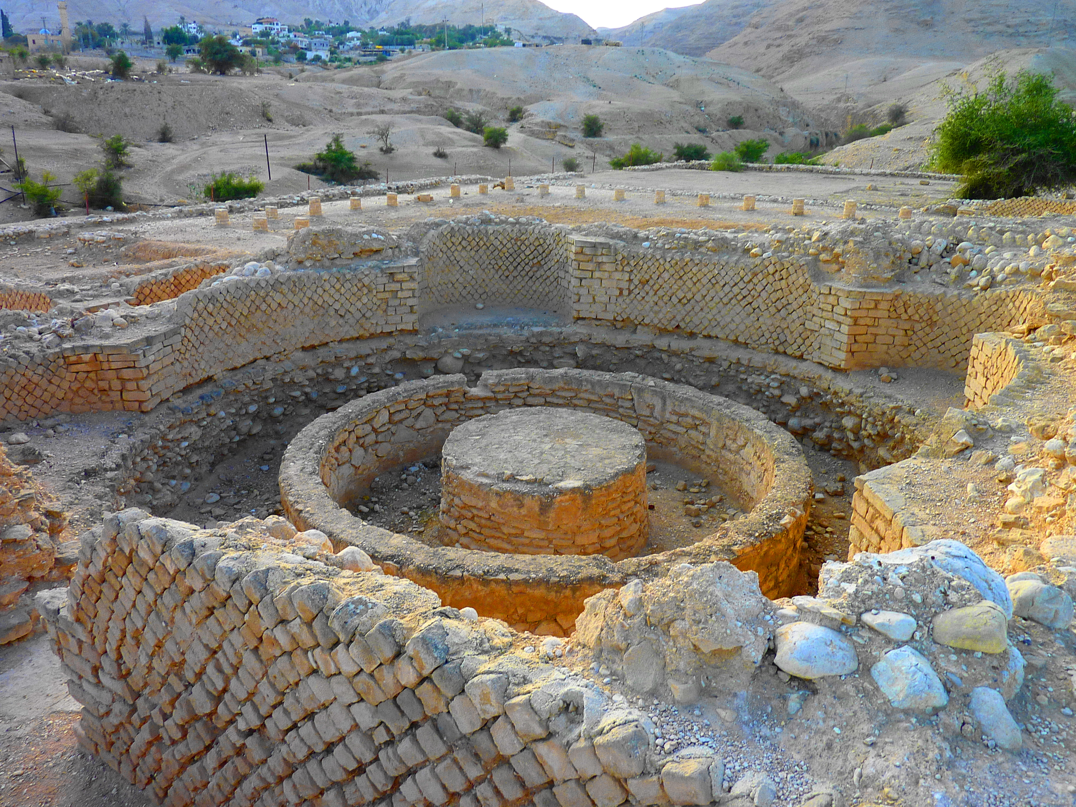 Herod's winter palace